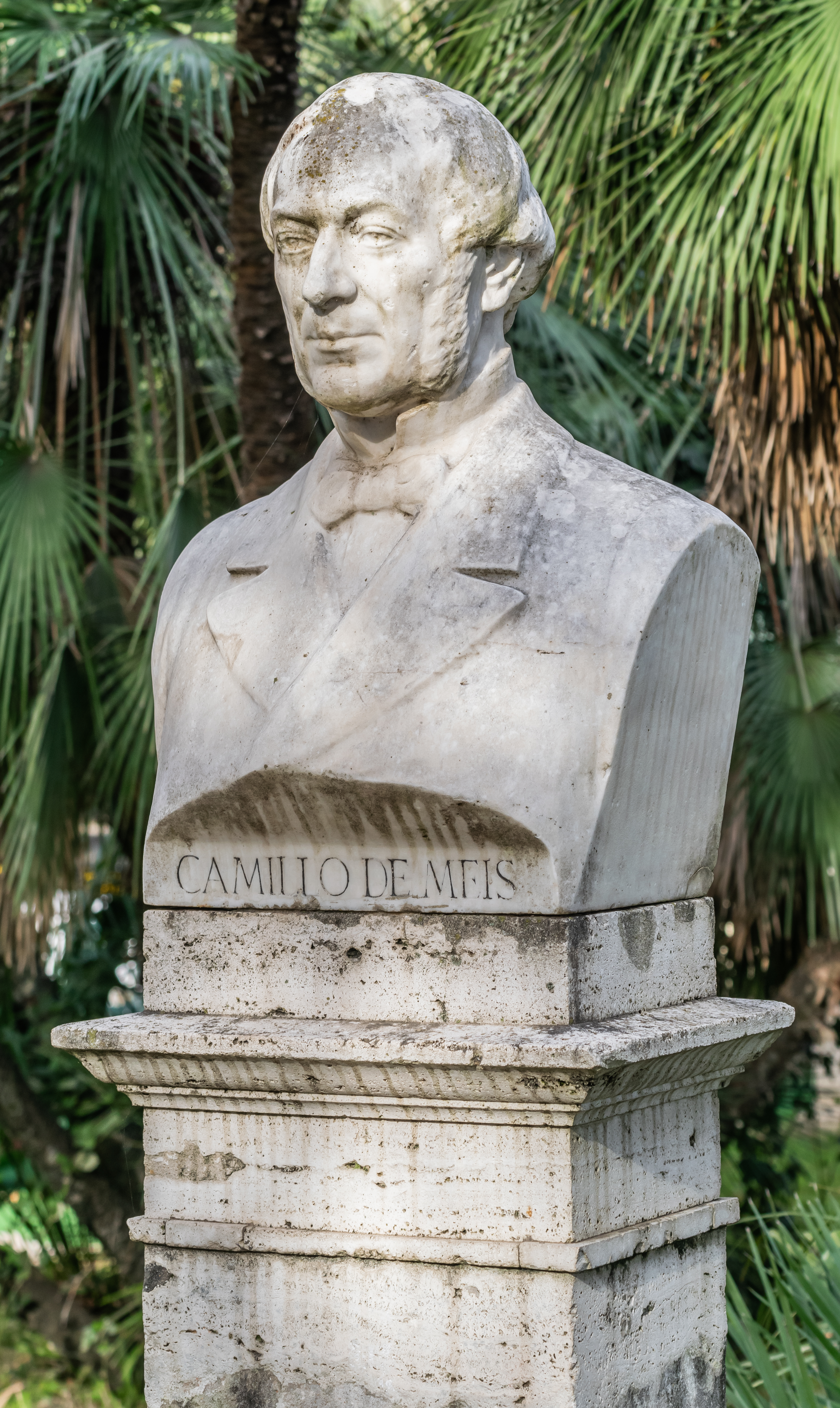 Bust of Angelo Camillo De Meis in the garden of Villa Borghese in Rome, Italy